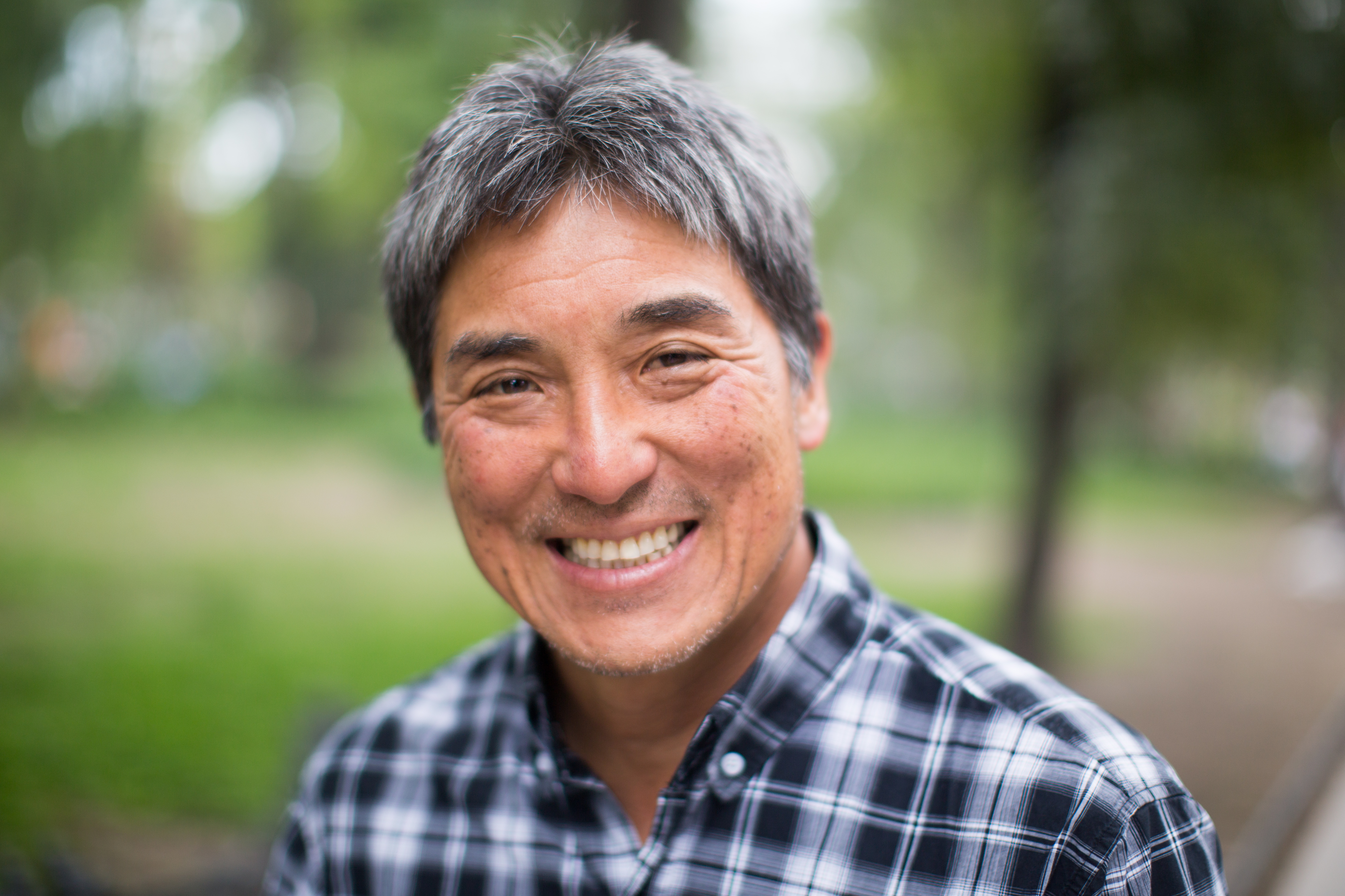 Guy Kawasaki, Wikimedia Foundation Board. Photographed at Wikimania 2015